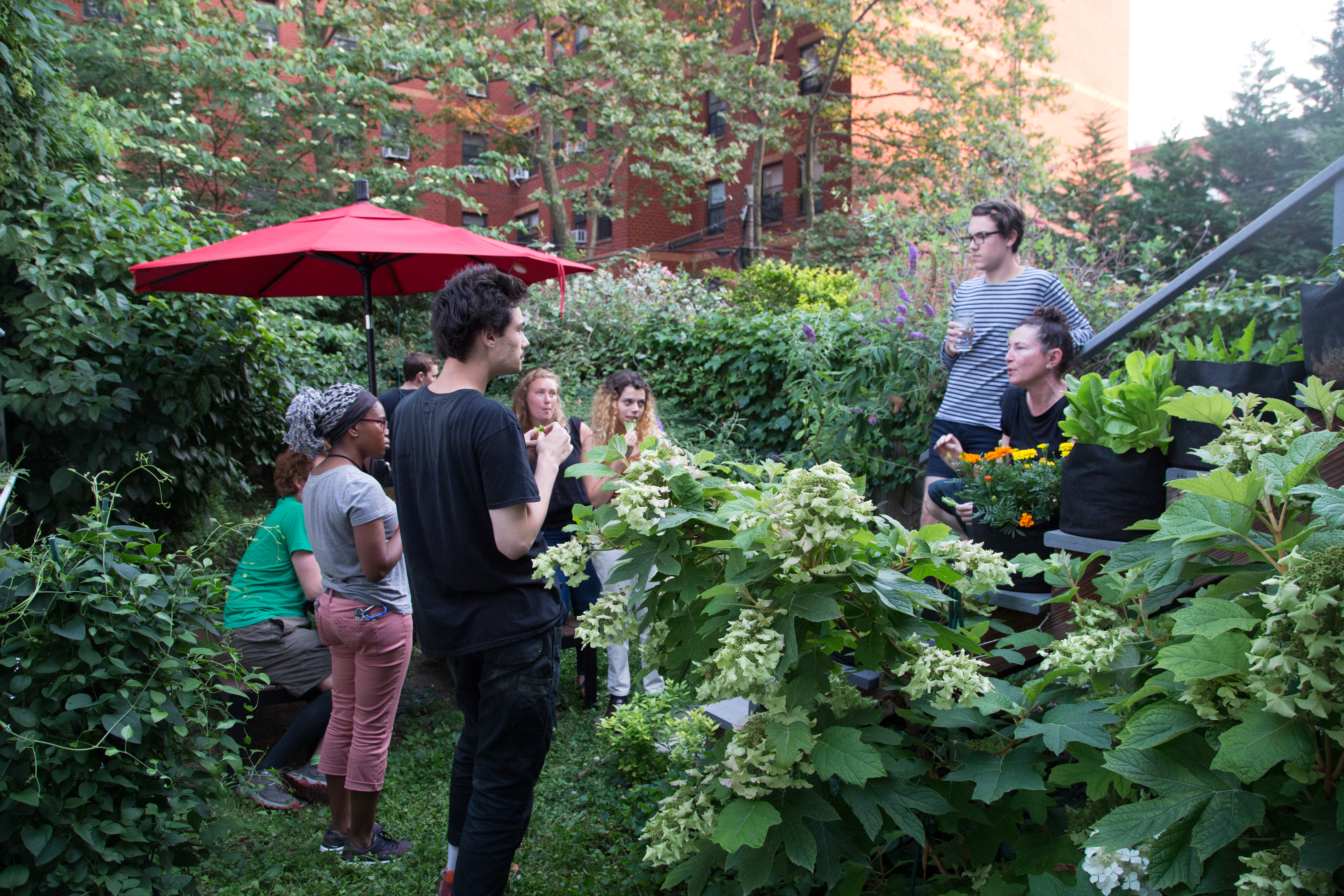 Artist Marina Zurkow talks with NYAP in her Brooklyn garden about edibles, sustainability, and ecology.